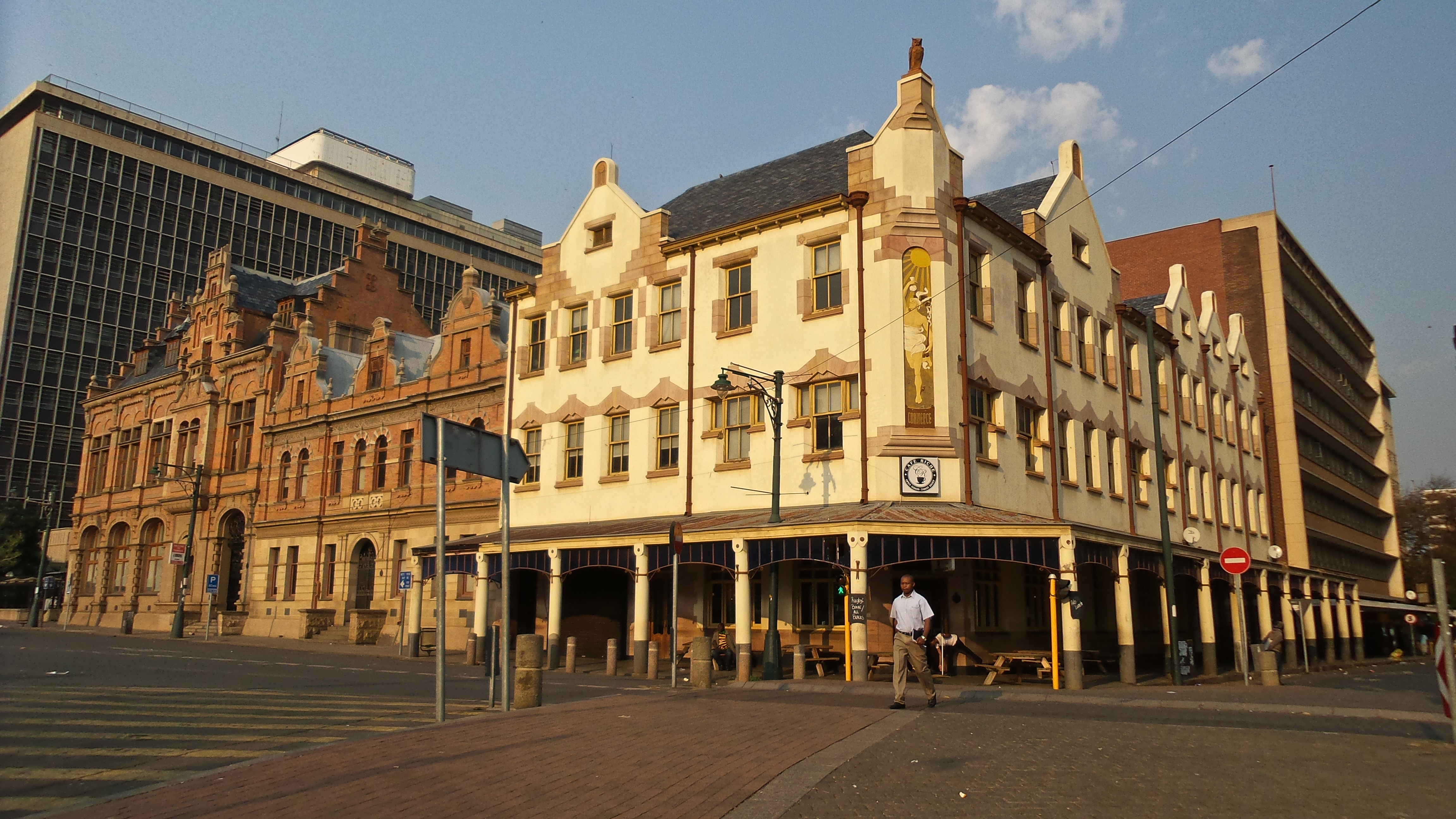 Cafe Riche, Church Square, Pretoria This media shows a South African Protected Site with SAHRA file reference 9/2/258/0012.